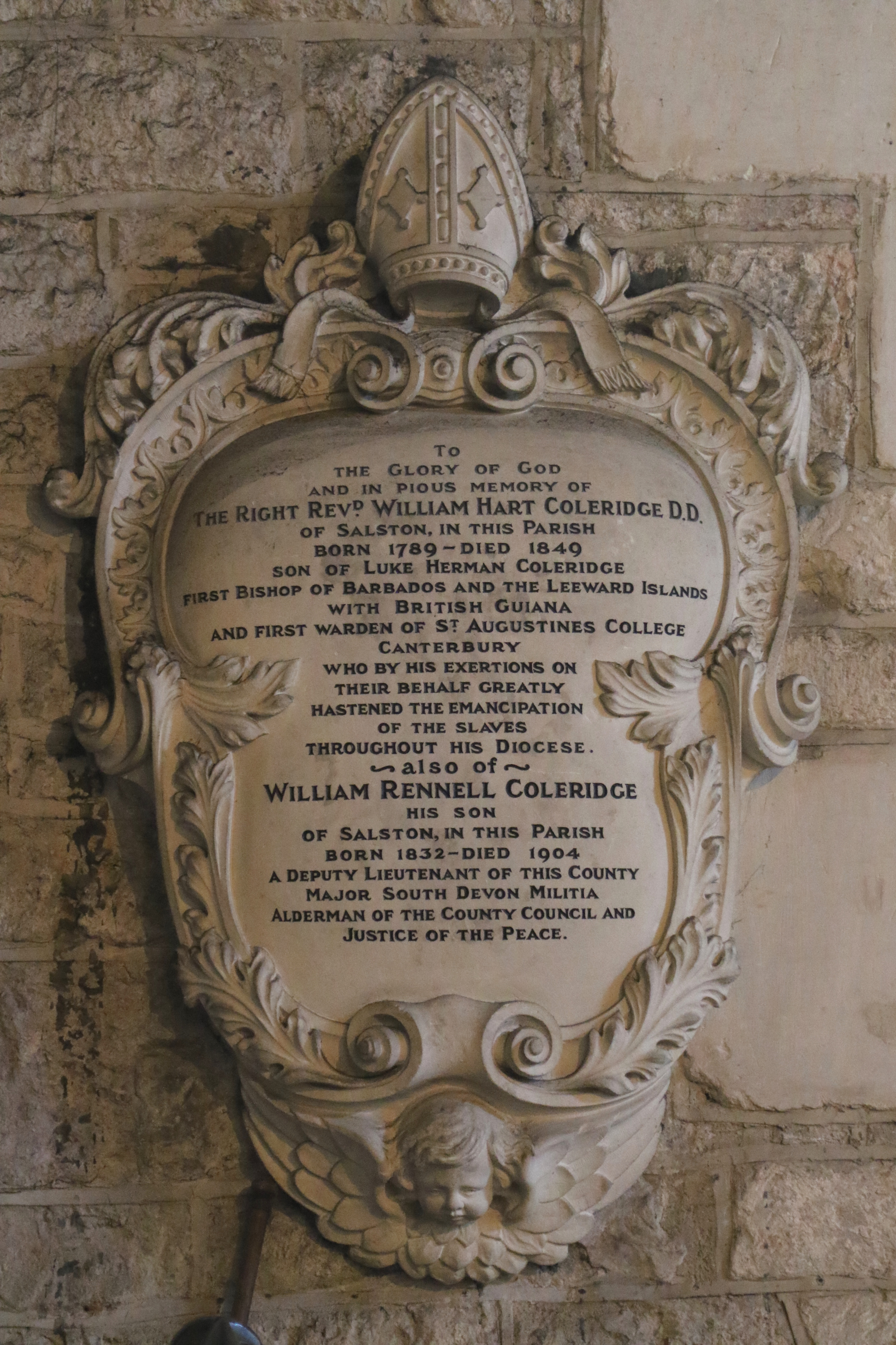 Right Revd. William Hart Coleridge of Salston in this parish, born 1789. Died 1849. Son of Luke Herman Coleridge, First Bishop of Barbados and the Leeward Islands with British Guiana and First Warden of St Augustines College, Canterbury Who by his exertions on their behalf greatly hastened the emancipation of the slaves throughout his diocese. Also of William Rennell Coleridge his son of Salerton in this parish Born 1832 - Died 1904 A deputy Lieutenant of this county Major South Devon Militia Alderman of the County Council and Justice of the Peace